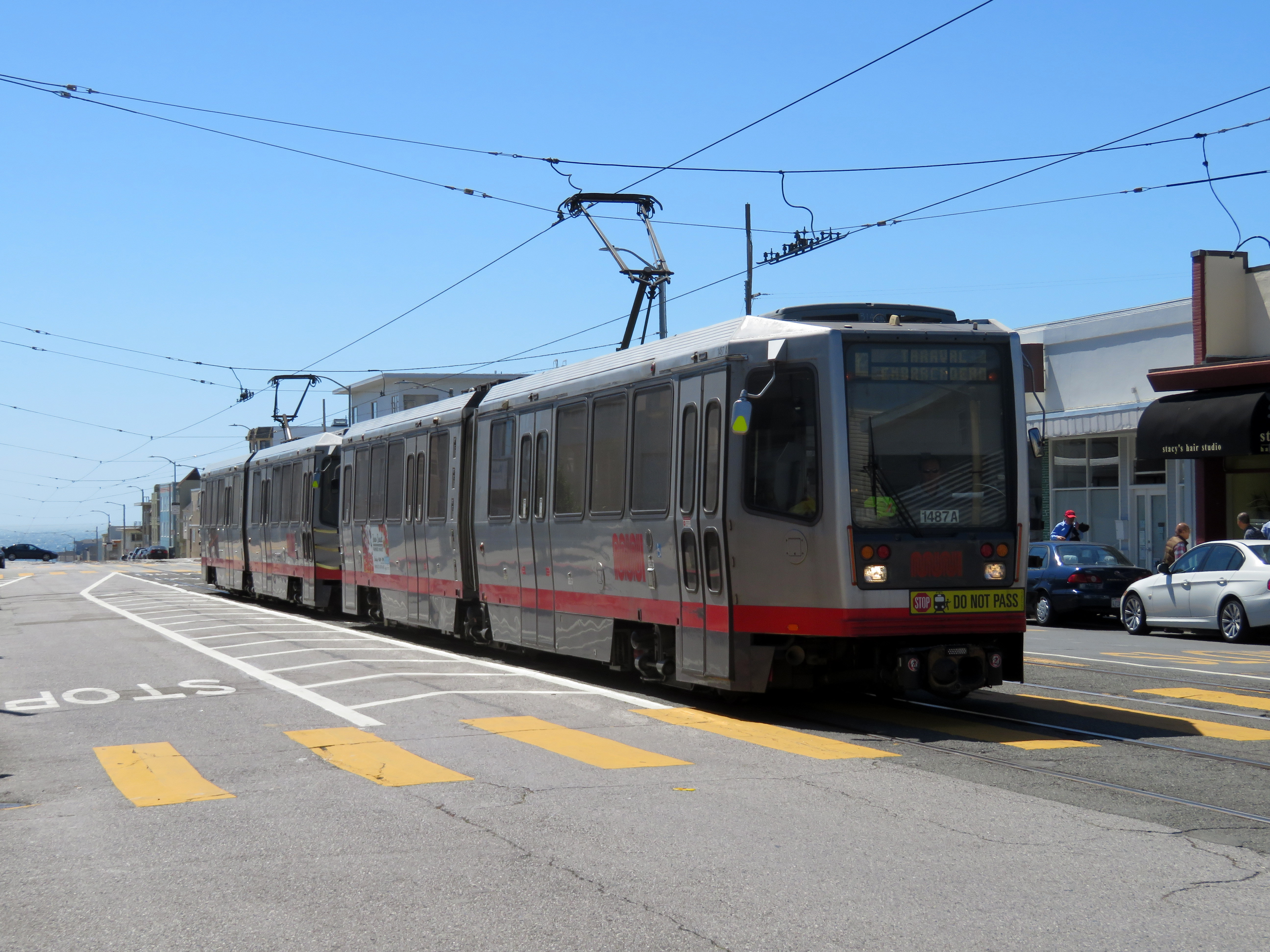 Inbound train at Taraval and 40th Avenue in June 2018